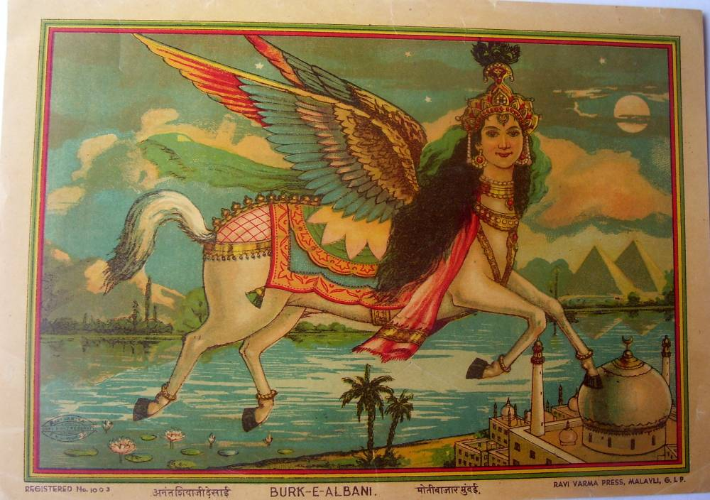 Buraq, the Prophet's steed during his Night Journey; a print by the Ravi Varma Press, 1910's Source: ebay, Feb. 2009